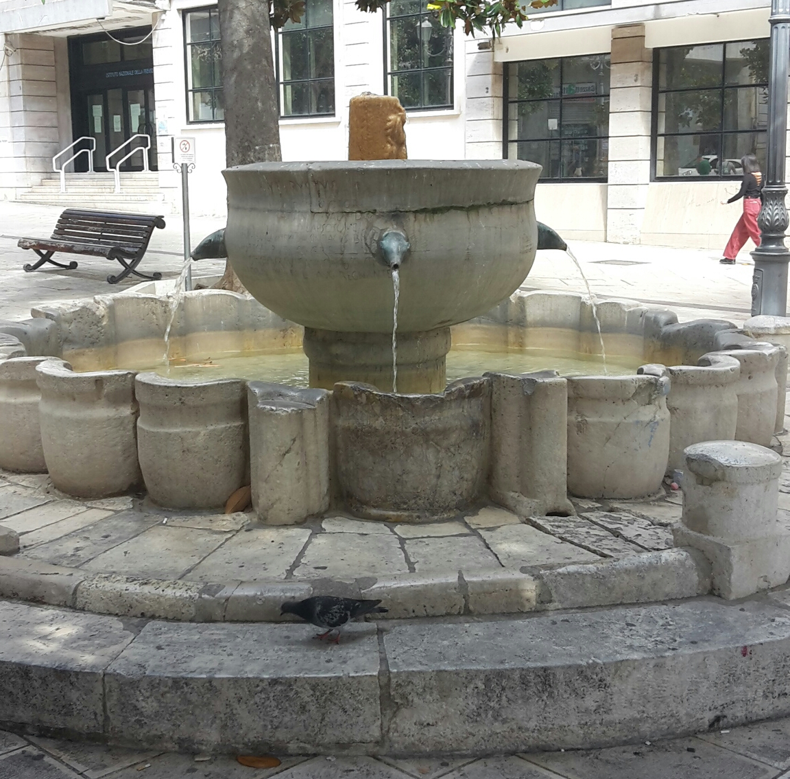 A fountain in Brindisi.